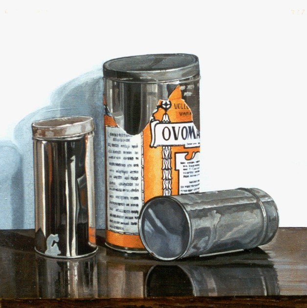 Stilleven met Ovomaltinebus